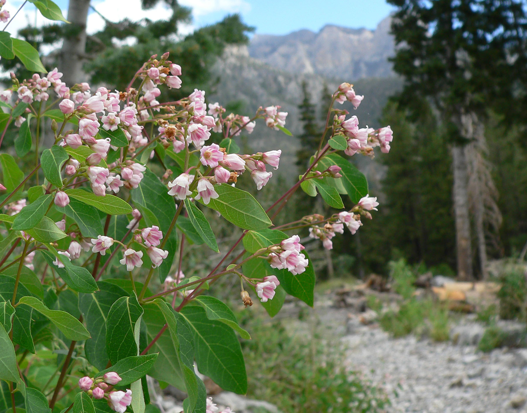 Apocynum androsaemifolium var. androsaemifolium alongside the first part of the South Loop trail, Kyle Canyon, Spring Mountains, southern Nevada (elev. about 2400 m)